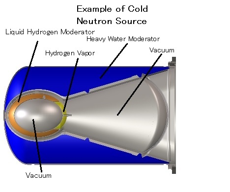 This is a diagram of a heavy water/liquid hydrogen cold neutron beam generator.